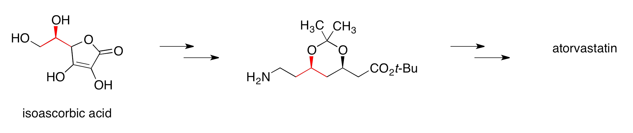 Atorvastatin synthesis in commercial production (process) chemistry. The key step establishing a stereocenter in this apparent commercial route to atorvastatin makes use of a readily available natural product, isoascornic acid, thus following a chiral pool approach to set the stereochemistry of the first alcohol functional group. Associated REF "Chapter 9. Atorvastatin Calcium (Lipitor)" in (2004) Contemporary Drug Synthesis, John Wiley & Sons, Inc., pp. 113–125 ISBN: 0-471-21480-9. . Created by dividing/cropping original image File:Atorvastatin_routes.png of User:Jammercer. NOTE: Integrity of information contained in the image is judged reasonable by this expert, but this citation was not actually contained in the source file, and image details were not checked against this inferred source. Use source and image only with verification of content for each intended purpose. Le Prof